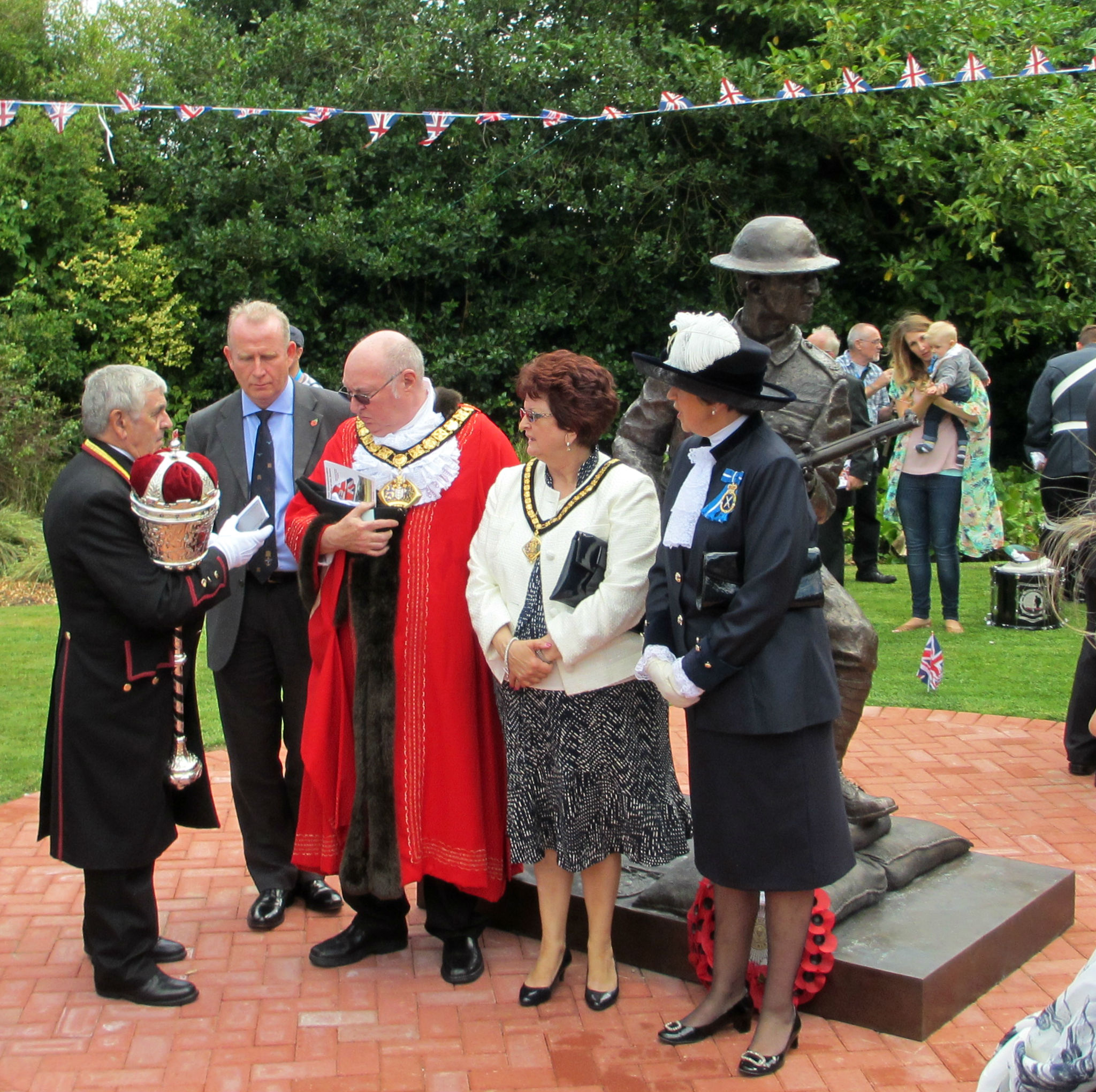 Photograph following the unveiling of the state of Todger Jones in the Memorial Garden, Runcorn, Cheshire